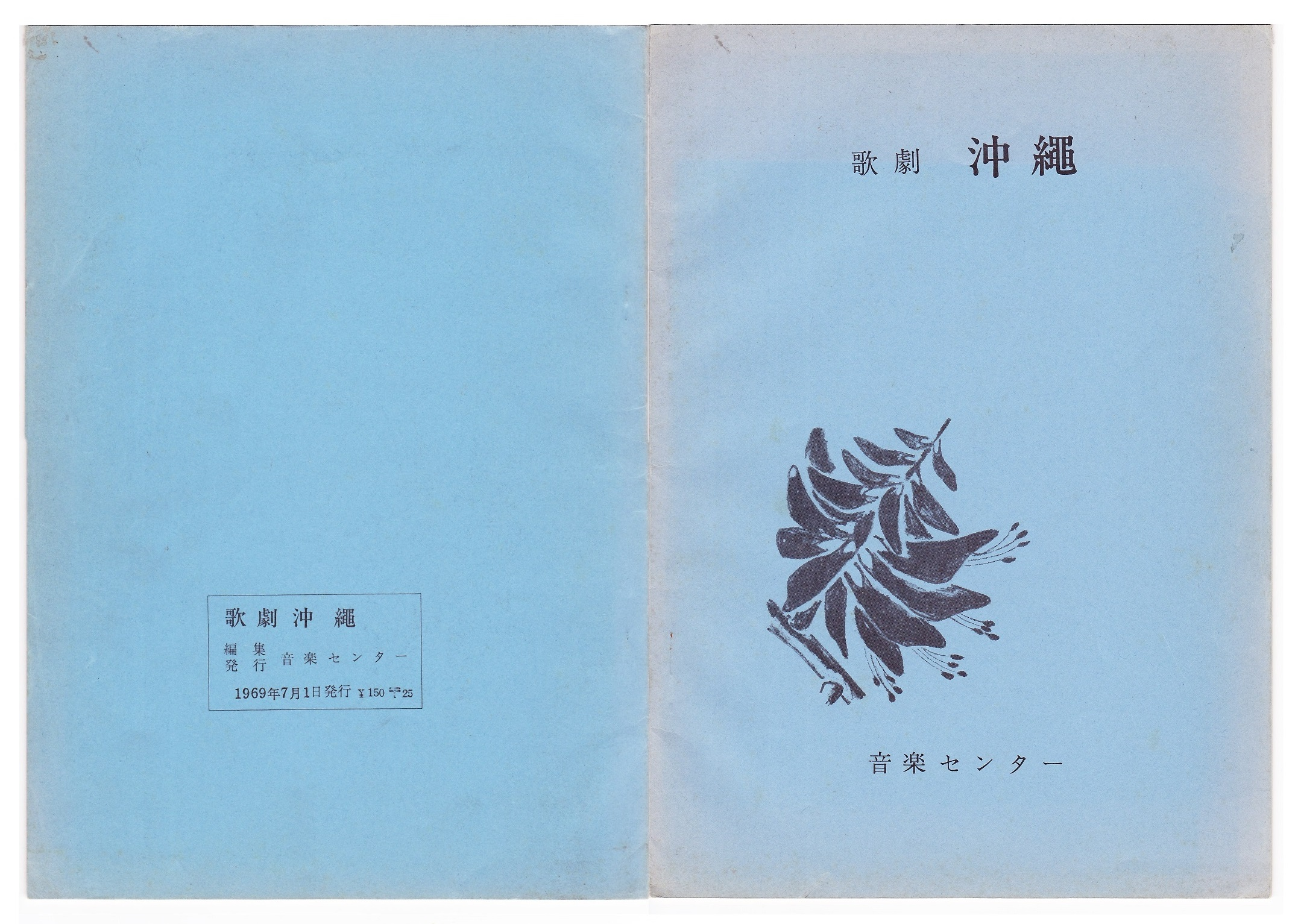 Cover of Japanese music score in the public domain